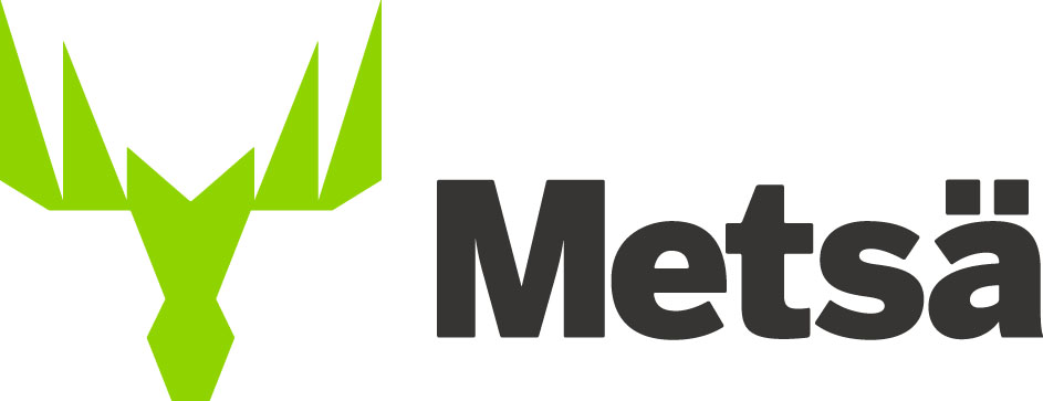 Metsä Group logo